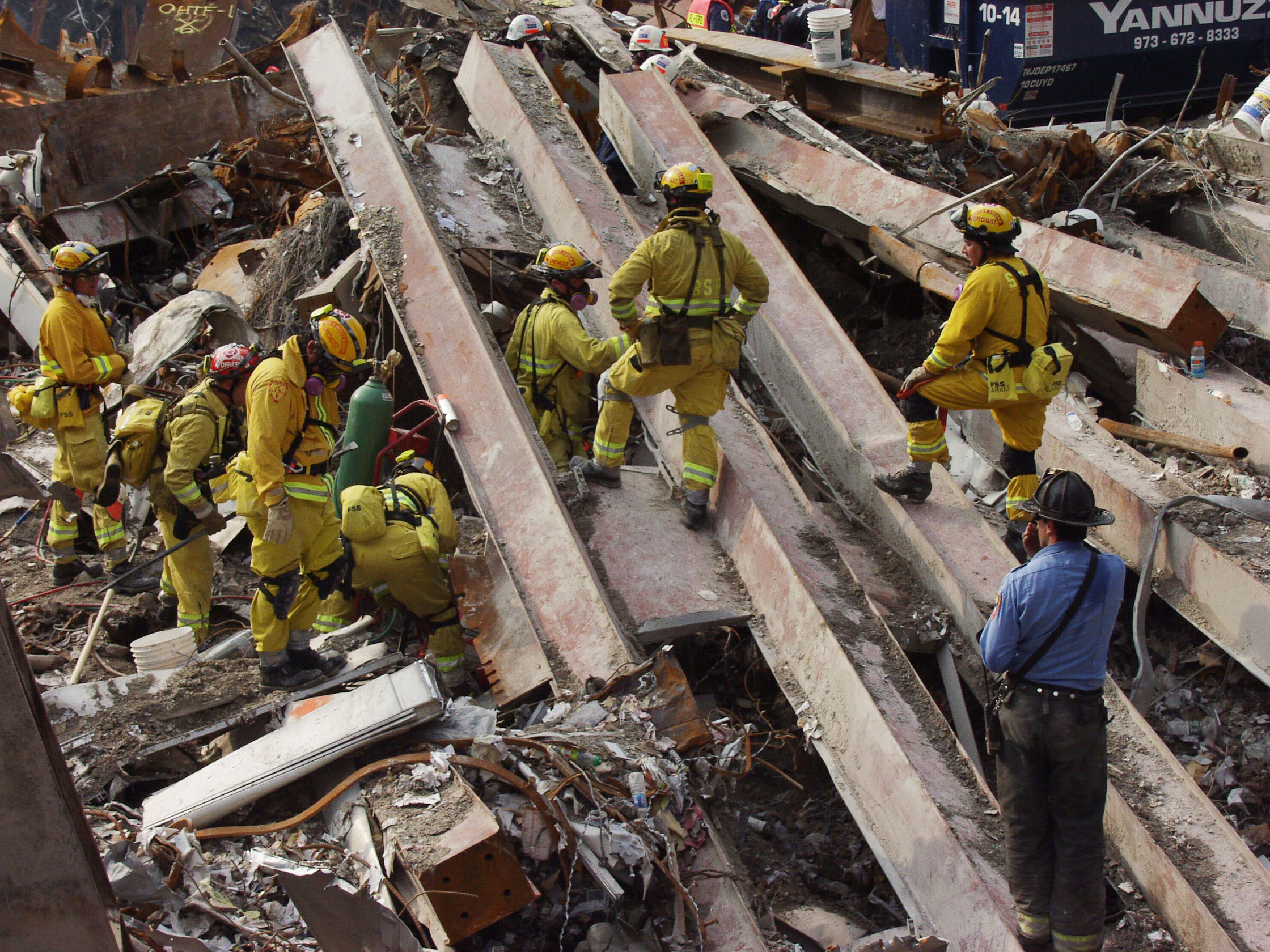 New York, NY, September 21, 2001 -- Fire department rescue specialists search through the rubble for survivors following the terrorist attacks on the World Trade Center. Photo by Michael Rieger/ FEMA News Photo